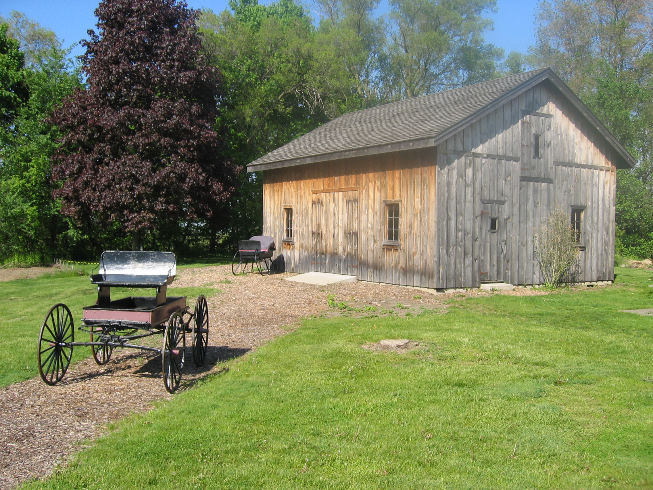 The Bell Homestead National Historic Site, Brantford, Ontario, Canada, including the Visitors' Center, Henderson Home, Carriage House and Alexander Graham Bell's dreaming place, where he saw the undulating ripples on the Grand River